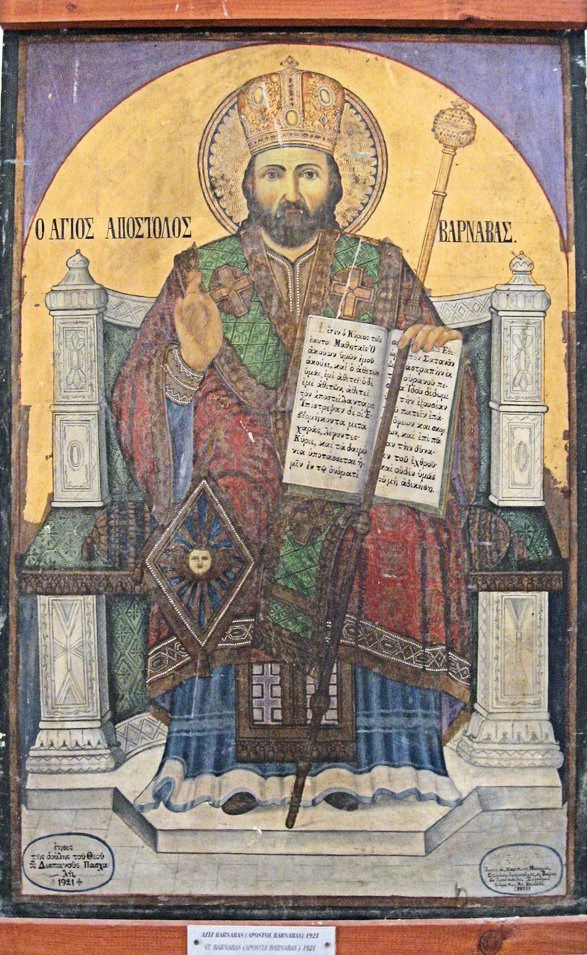 Icon of St. Barnabas (1921), Museum St. Barnabas Salamis (Cyprus).